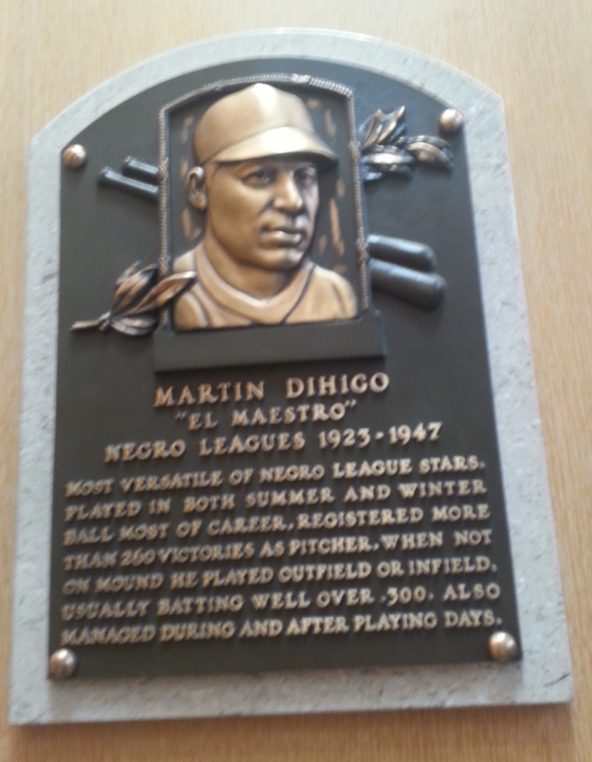 Martín Dihigo plaque in the National Baseball Hall of Fame